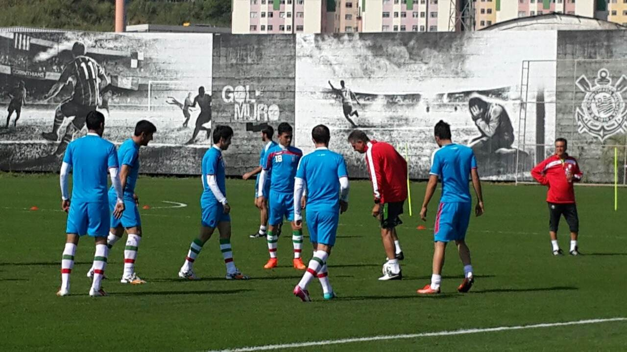 Iranian National Football Team in their training camp in Brazing before match with Bosnia and Herzegovina